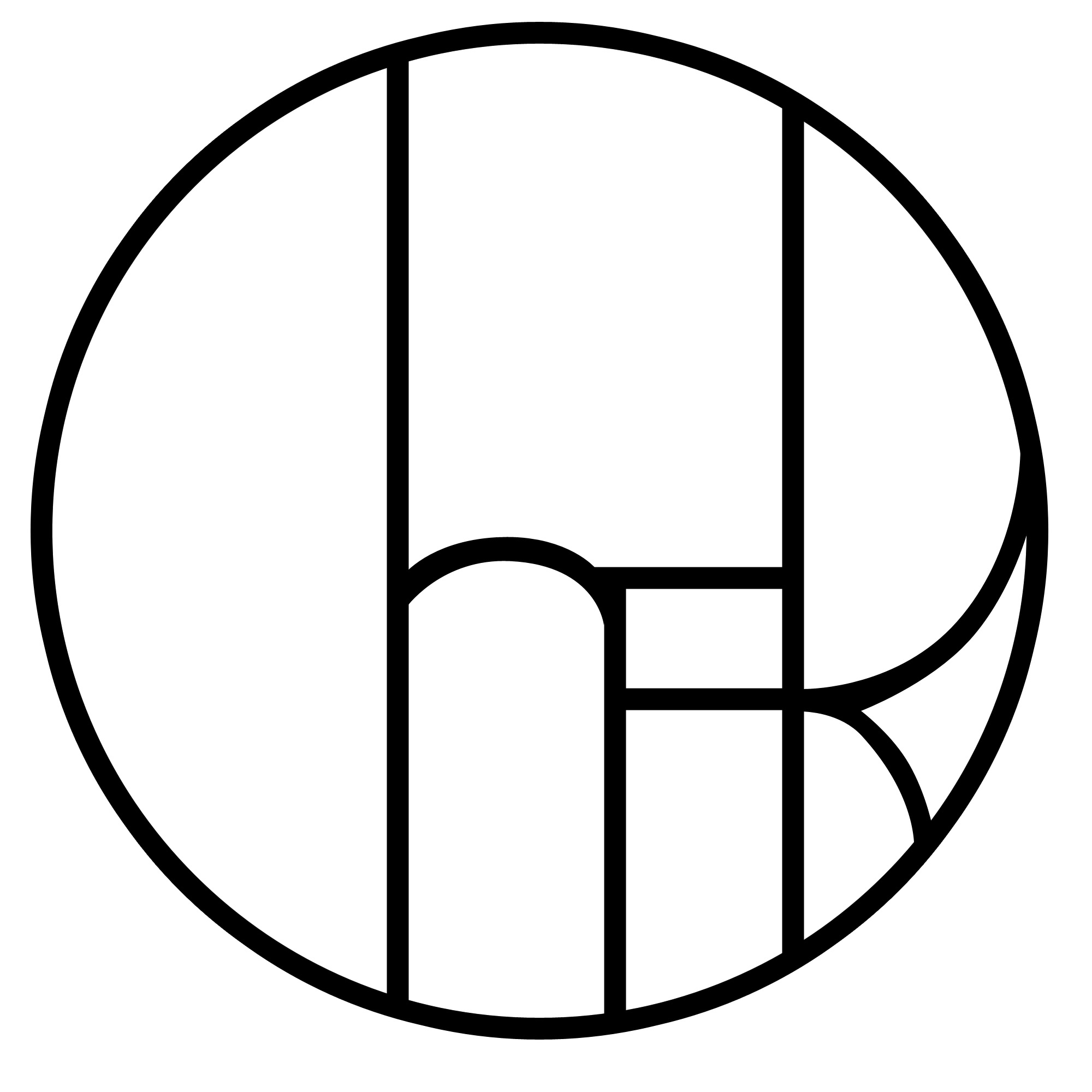 Cher